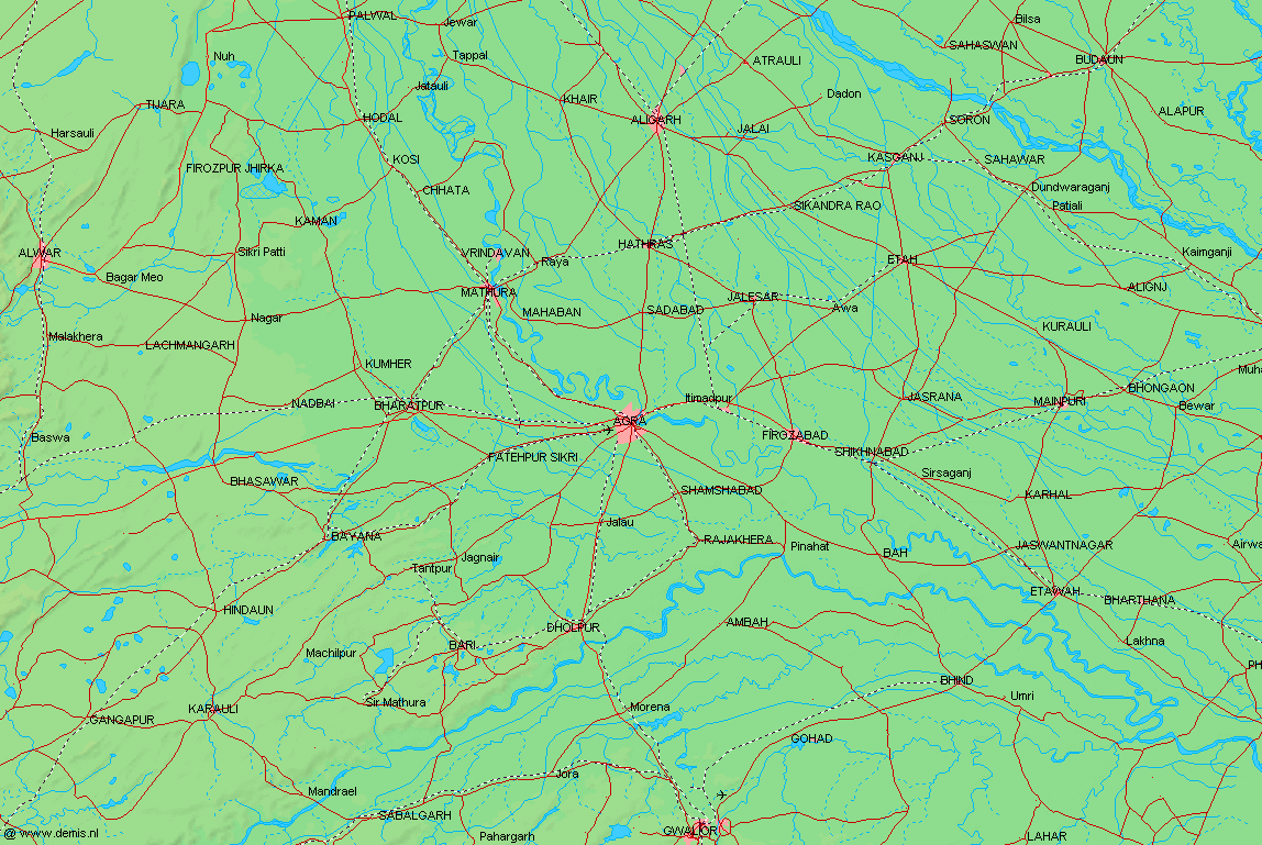 Surroundings of Agra, India. Originated from Public Domain.